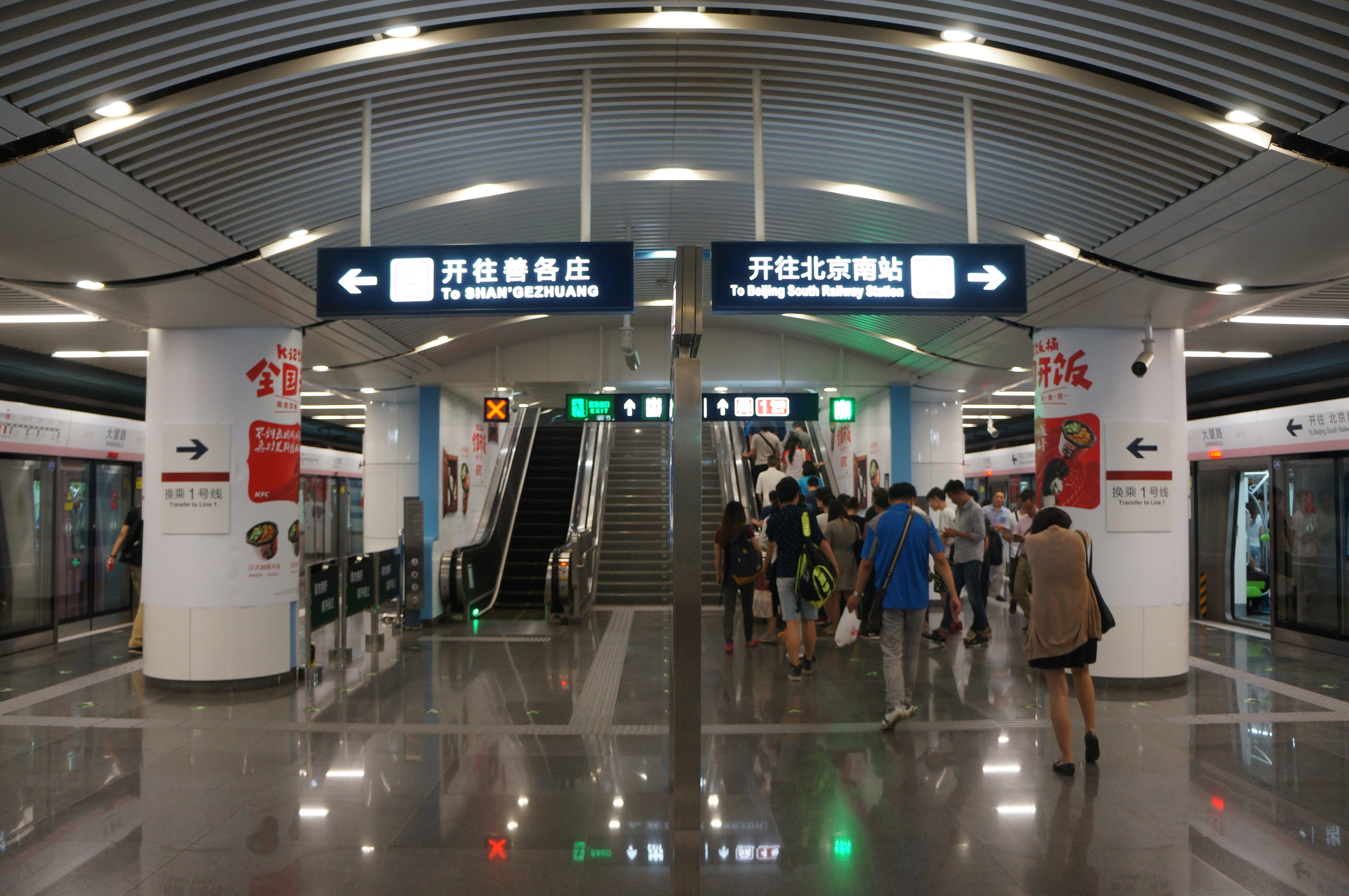 201606 Dawanglu Station Line 14